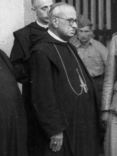 Montecassino Abbey, Italy, 1943. Bishop Gregorio Vito Diamare, Archabbot of Montecassino Abbey, supervises the packing of artworks from the Abbey about to be transferred to more secure places by the German Division "Hermann Göring".